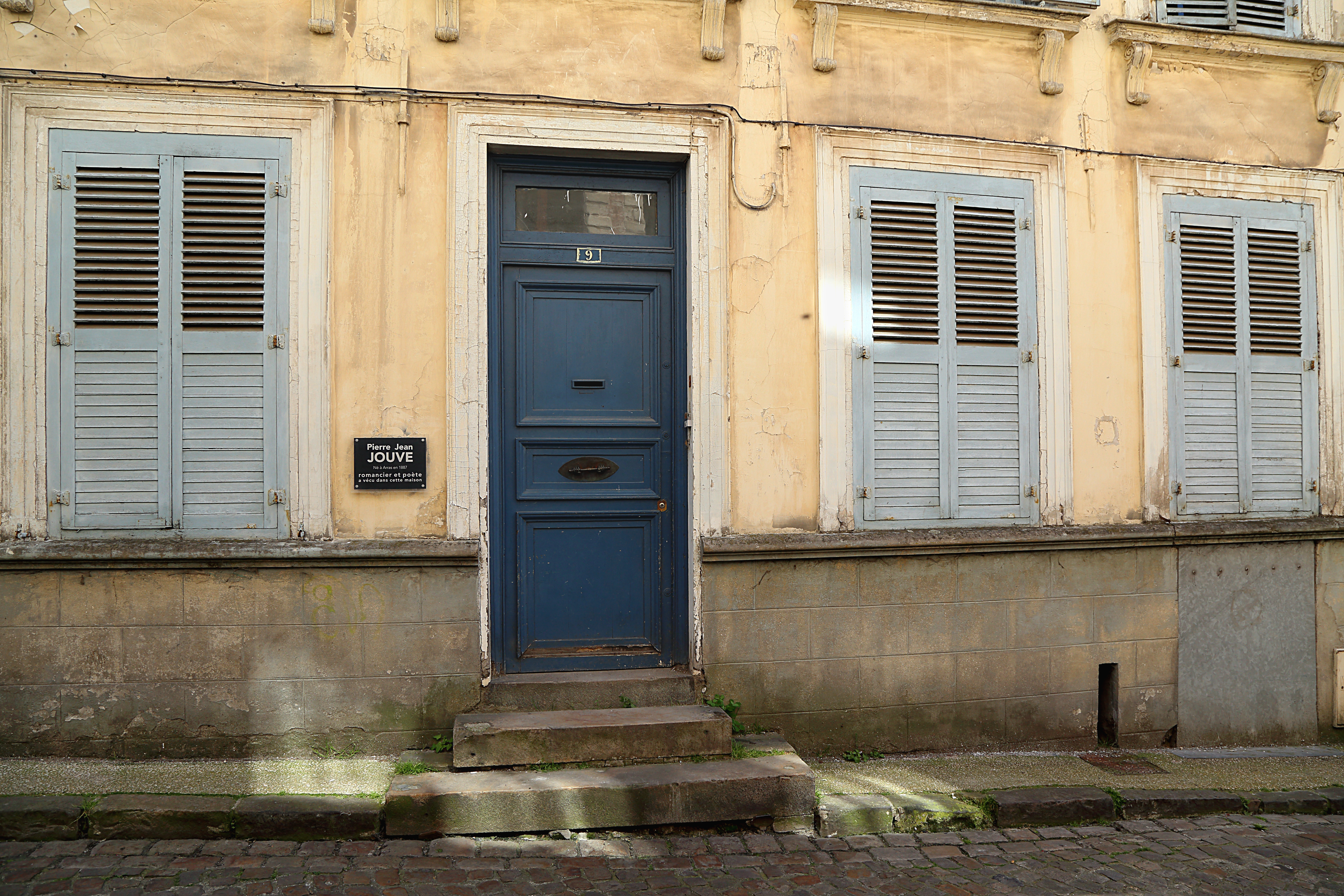 House where Pierre Jean Jouve lived, 9, rue de la Caisse d’épargne in Arras, France.